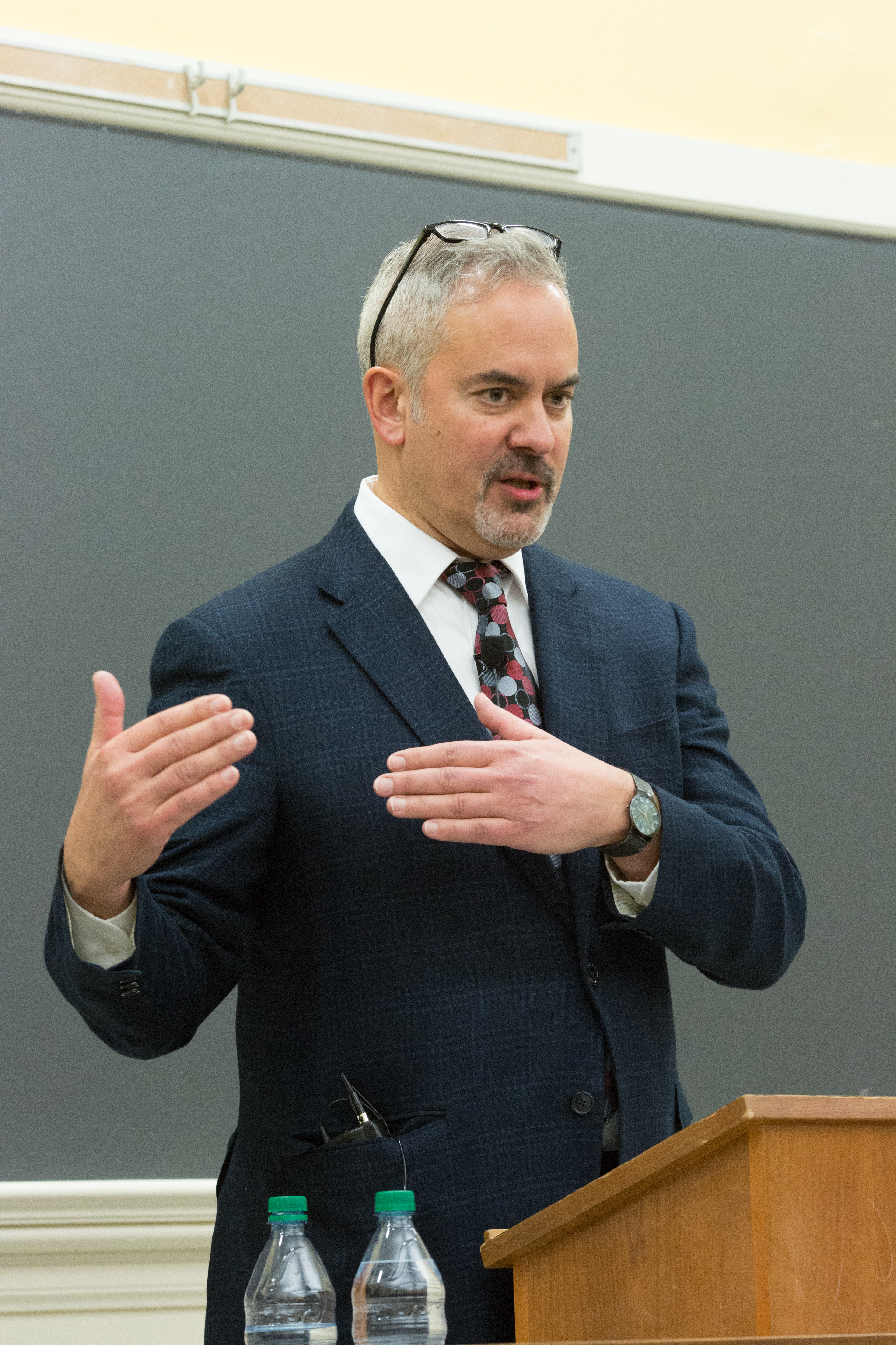 Stephen Macedo at the Edmond J. Safra Center for Ethics.